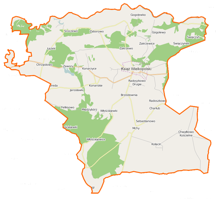 Map of Gmina Książ Wielkopolski, Poland This map of Książ Wielkopolski (gmina) was created from OpenStreetMap project data, collected by the community. This map may be incomplete, and may contain errors. Don't rely solely on it for navigation.